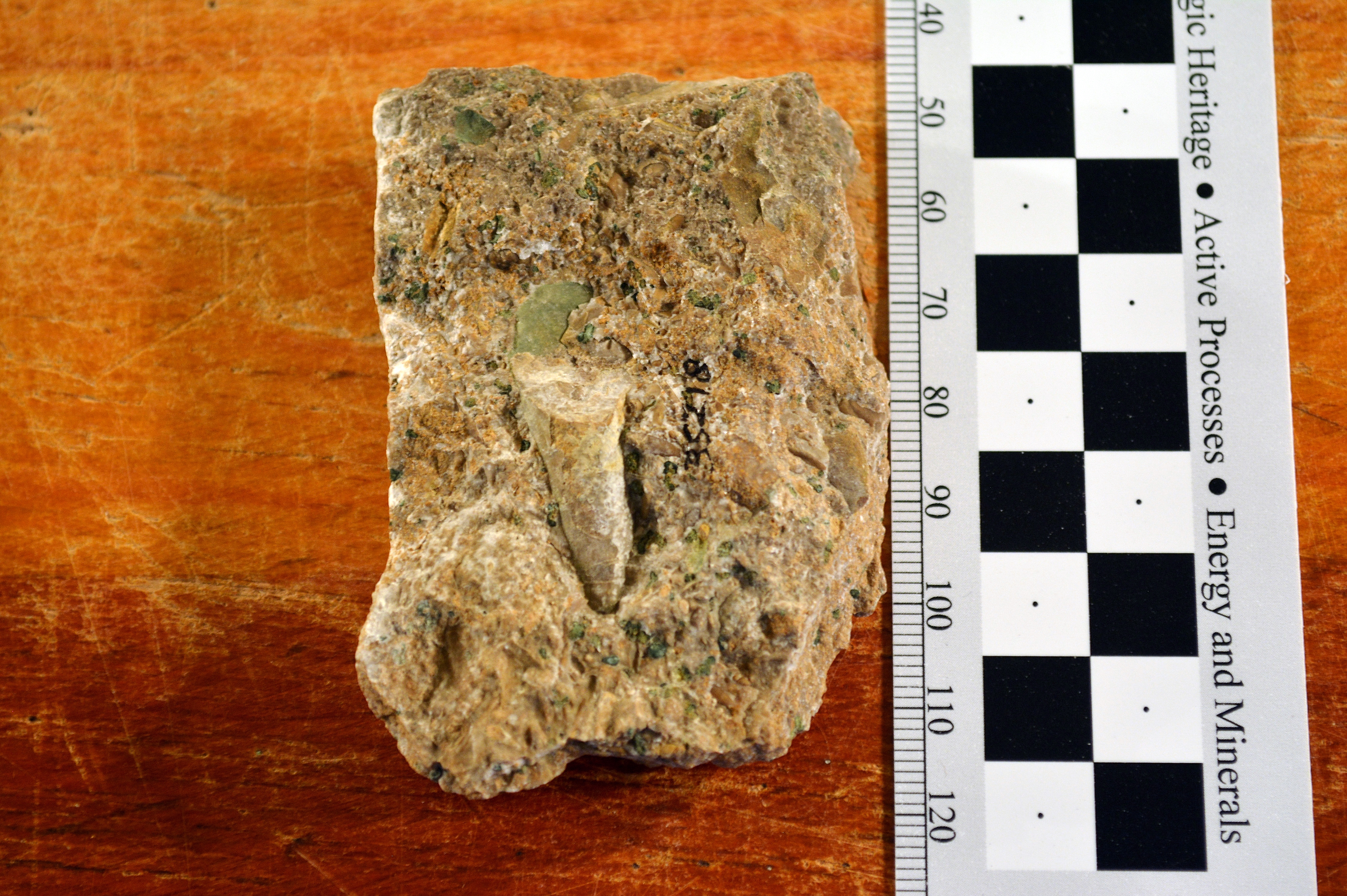 USNM_35218 (pictured here) and YELL-92021: Hyolithes gallatinensis (USNM 35218) was collected from the Snowy Range Formation and is now reposited at the Smithsonian National Museum of Natural History. Hyolitha YELL-92021 was collected from the Pilgrim Limestone and is housed with the Yellowstone collection. Hyoliths do not resemble any living organism today making them very difficult to study. But, they were most likely ocean bottom dwellers and like trilobites became extinct at the end of the Permian. Collecting any natural resources, including rocks and fossils, is illegal in Yellowstone. Photo by Megan Norr; March 2016; Catalog #20790d; Original #USNM_35218